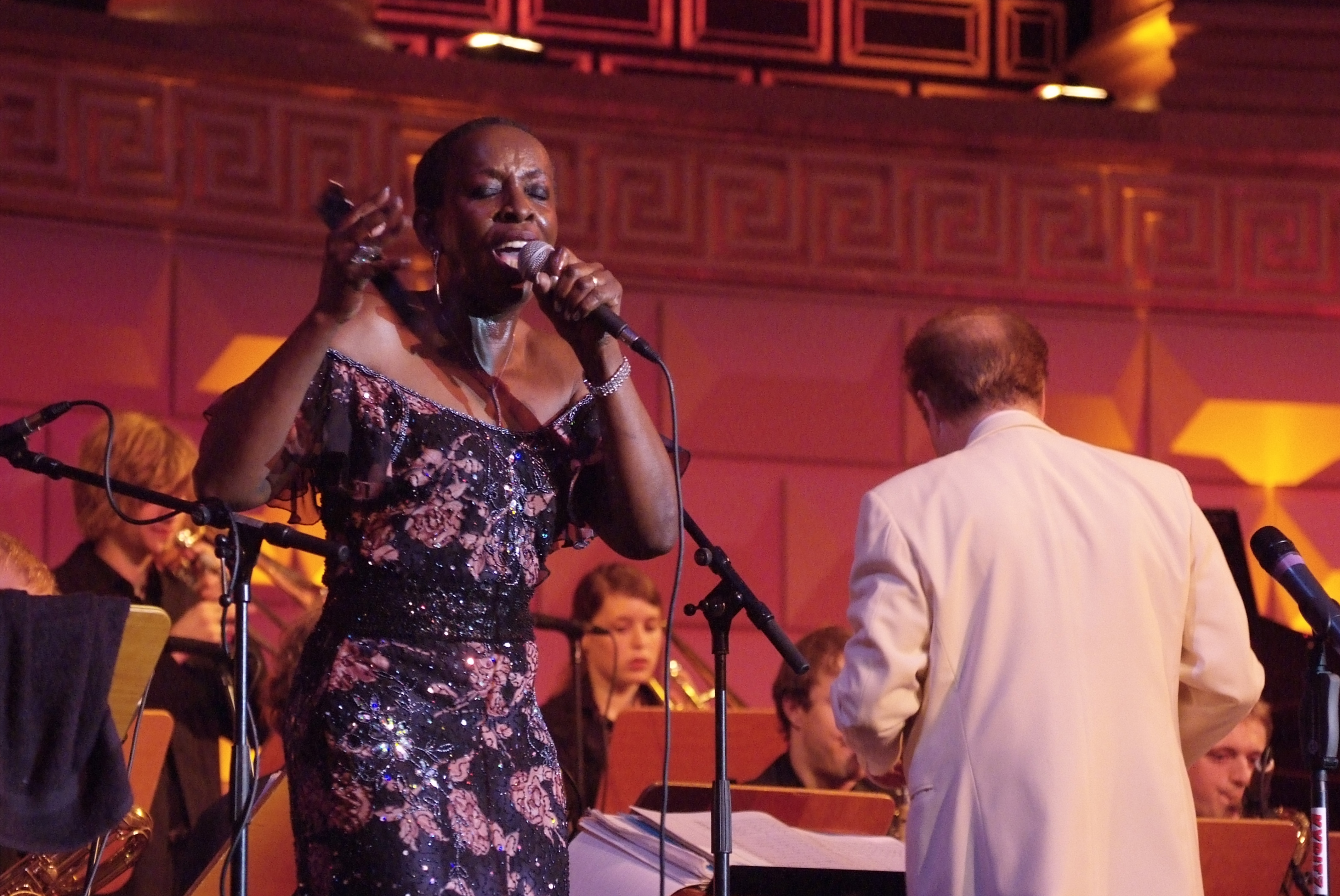 Madeline Bell, a jazz singer, performs at the Kurhaus Wiesbaden, Germany on June 28th, 2008, during the 60th anniversary of the Berlin Airlift.